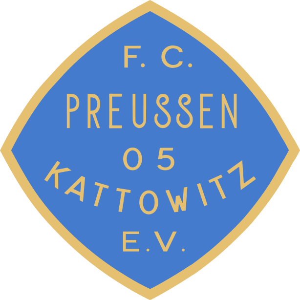 Logo of FC Preußen 05 Kattowitz, German football team.